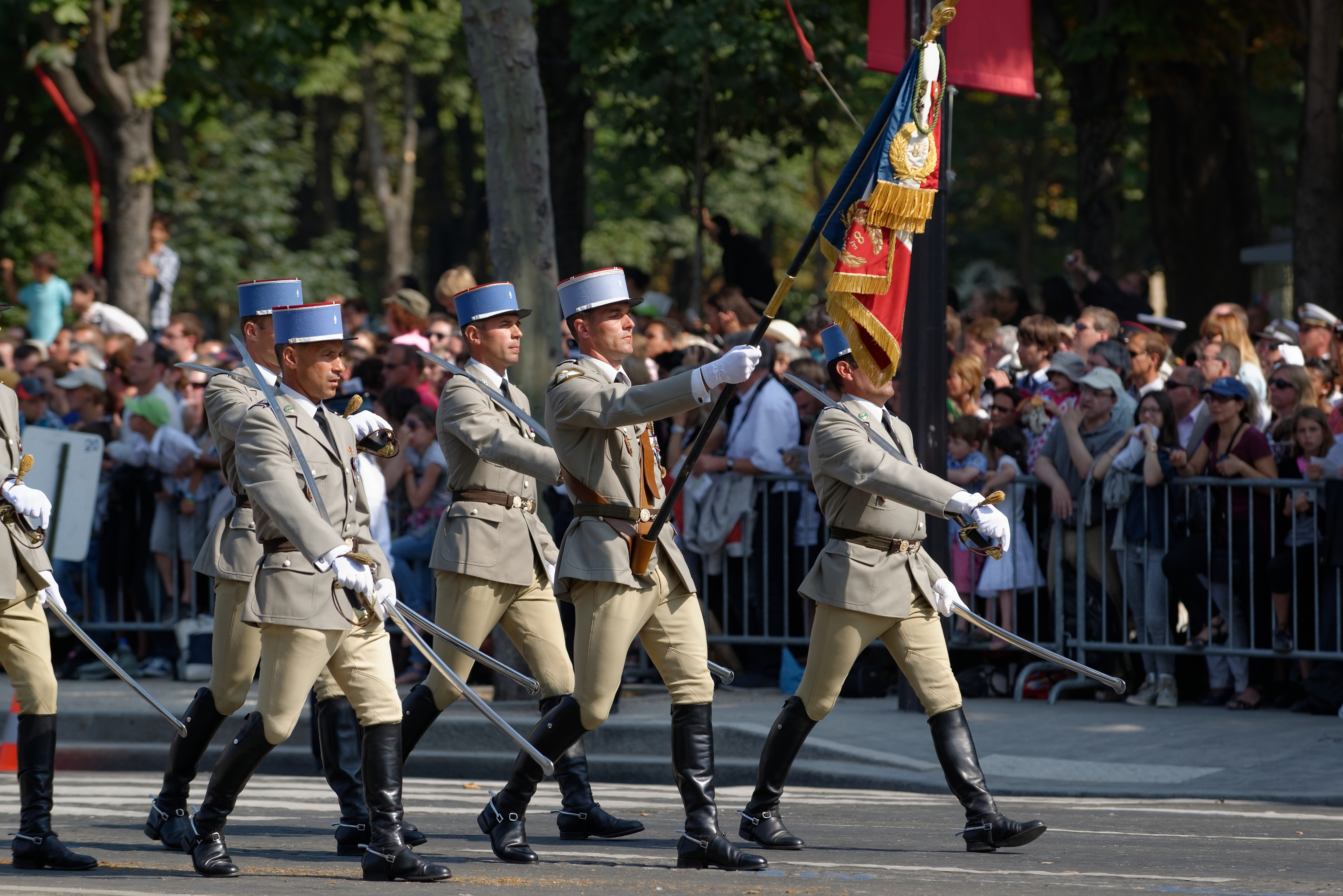 Colour guard of the Sports Centre for Military Horse Riding, bearing the flag of the 8th Dragoon Regiment of the École nationale des sous-officiers d'active in the Bastille Day 2013 military parade on the Champs-Élysées in Paris.